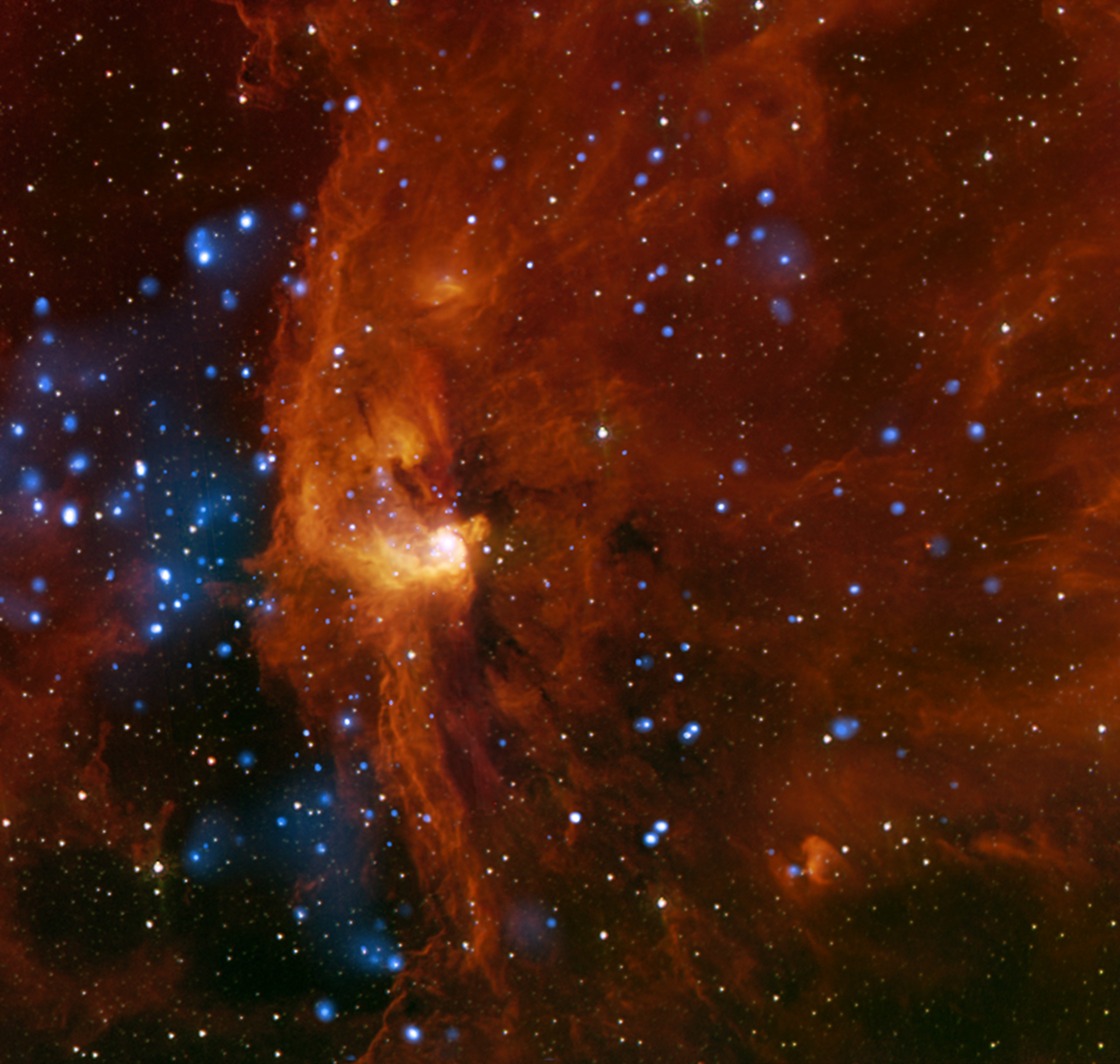 Description: In Chandra's X-ray image (blue) of RCW 108, over 400 sources of X-ray light are seen. Many of these X-ray sources are young stars undergoing massive flaring just as our Sun did billions of years ago. The infrared Spitzer image (red and orange) shows the clouds of dust and gas of this region. The bright knot just to the left of center is where a cluster of young stars is hidden behind a dense cloud of molecular hydrogen. Intense radiation from massive stars in another nearby cluster, just out of view to the left of this image, is destroying the cloud that contains this cluster. Ultimately, this will trigger a new generation of stars to form in RCW 108. Creator/Photographer: Chandra X-ray Observatory The Chandra X-ray Observatory, which was launched and deployed by Space Shuttle Columbia on July 23, 1999, is the most sophisticated X-ray observatory built to date. The mirrors on Chandra are the largest, most precisely shaped and aligned, and smoothest mirrors ever constructed. Chandra is helping scientists better understand the hot, turbulent regions of space and answer fundamental questions about origin, evolution, and destiny of the Universe. The images Chandra makes are twenty-five times sharper than the best previous X-ray telescope. The Smithsonian Astrophysical Observatory controls Chandra science and flight operations from the Chandra X-ray Center in Cambridge, Massachusetts. Medium: Chandra telescope x-ray Date: 2008 Persistent URL: [1] Repository: Smithsonian Astrophysical Observatory Gift line: X-ray: NASA/CXC/CfA/S.Wolk et al. Accession number: rcw108